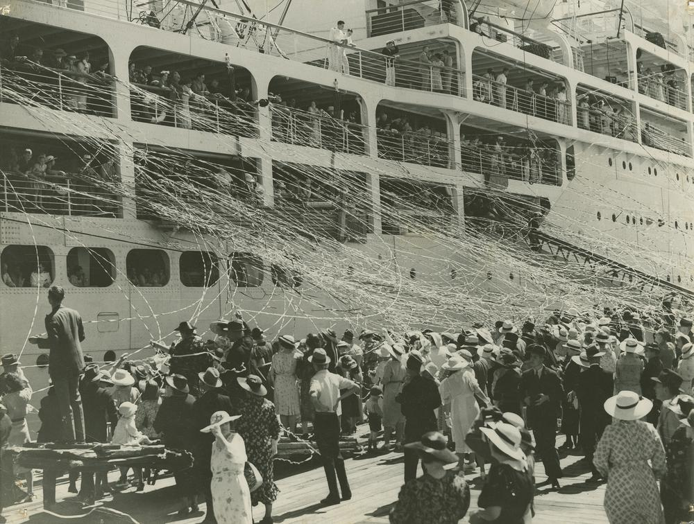 Farewell to passengers leaving on the Stratheden, Hamilton, Brisbane Streamers connecting departing passengers with friends and family are blowing in the wind. A large crowd is assembled on the dockto farewell the ship. Passengers are lining all five of the visible decks of the ship.